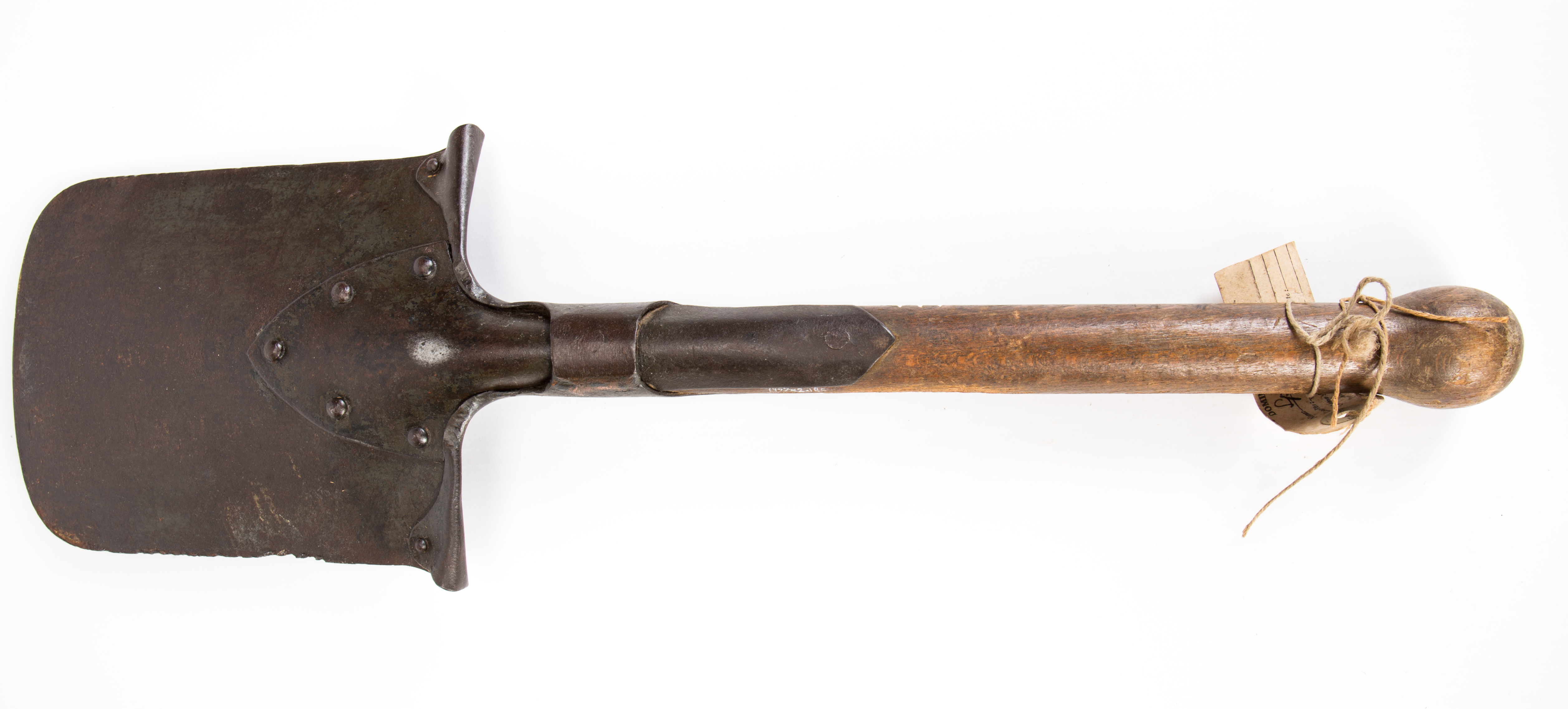 Turkish spade, WW1 wooden handle; square metal blade; upper end of blade folded over and riveted on reverse; handle fits into metal socket riveted to blade and partly formed as an extension of the blade; short wooden handle ends in circular knob markings- 'HD' engraved on handle Spade found with label stating 'Turkish', but it is possibly German-made. The style of its manufacture with the upper end of the blade being folded over and riveted is characteristic of German manufactured shovels of WW1.